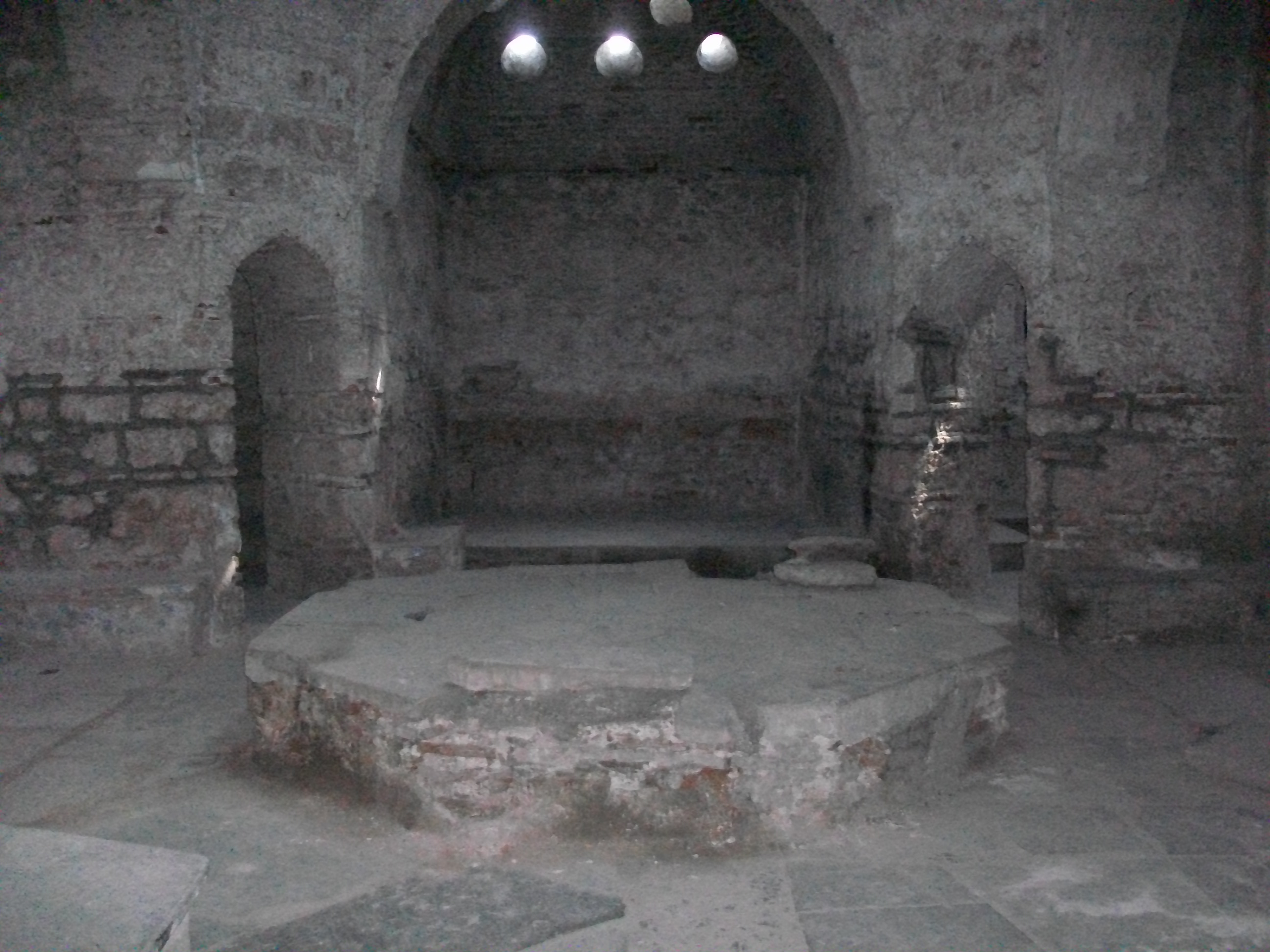 Pictures from Prizren Kosovo